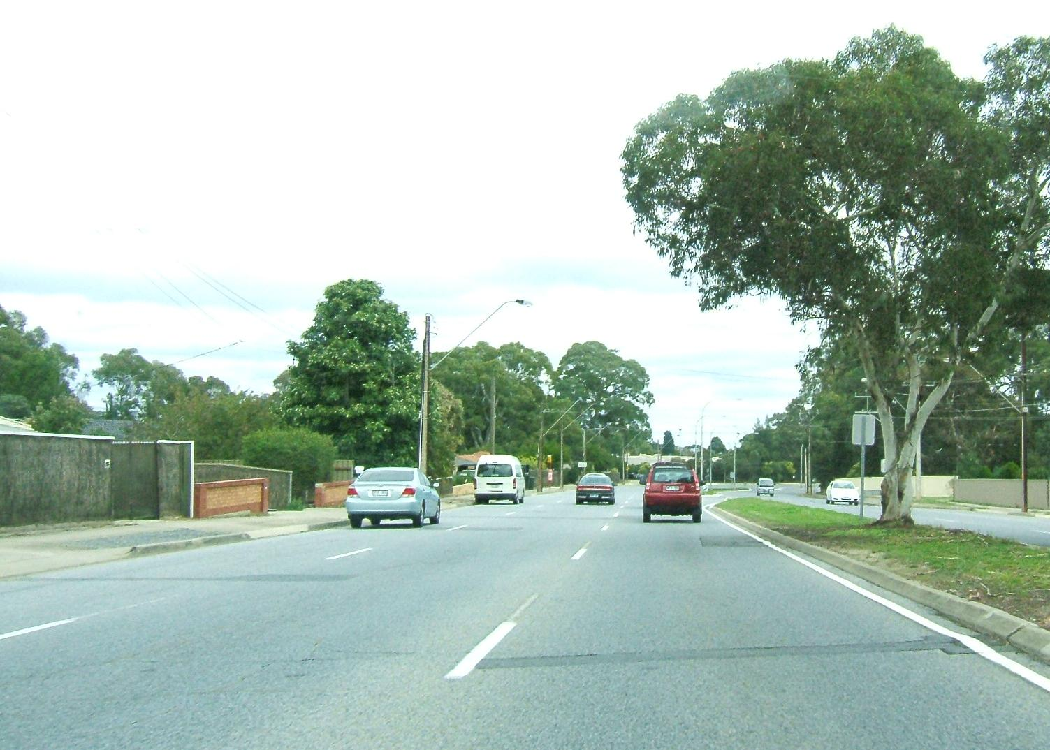 North East Road passing through Ridgehaven, Adelaide.